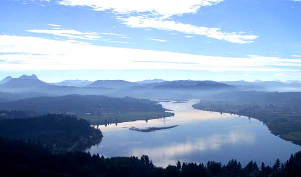 Youngs River and Saddle Mountain near Astoria (taken Nov. 6, 2004)